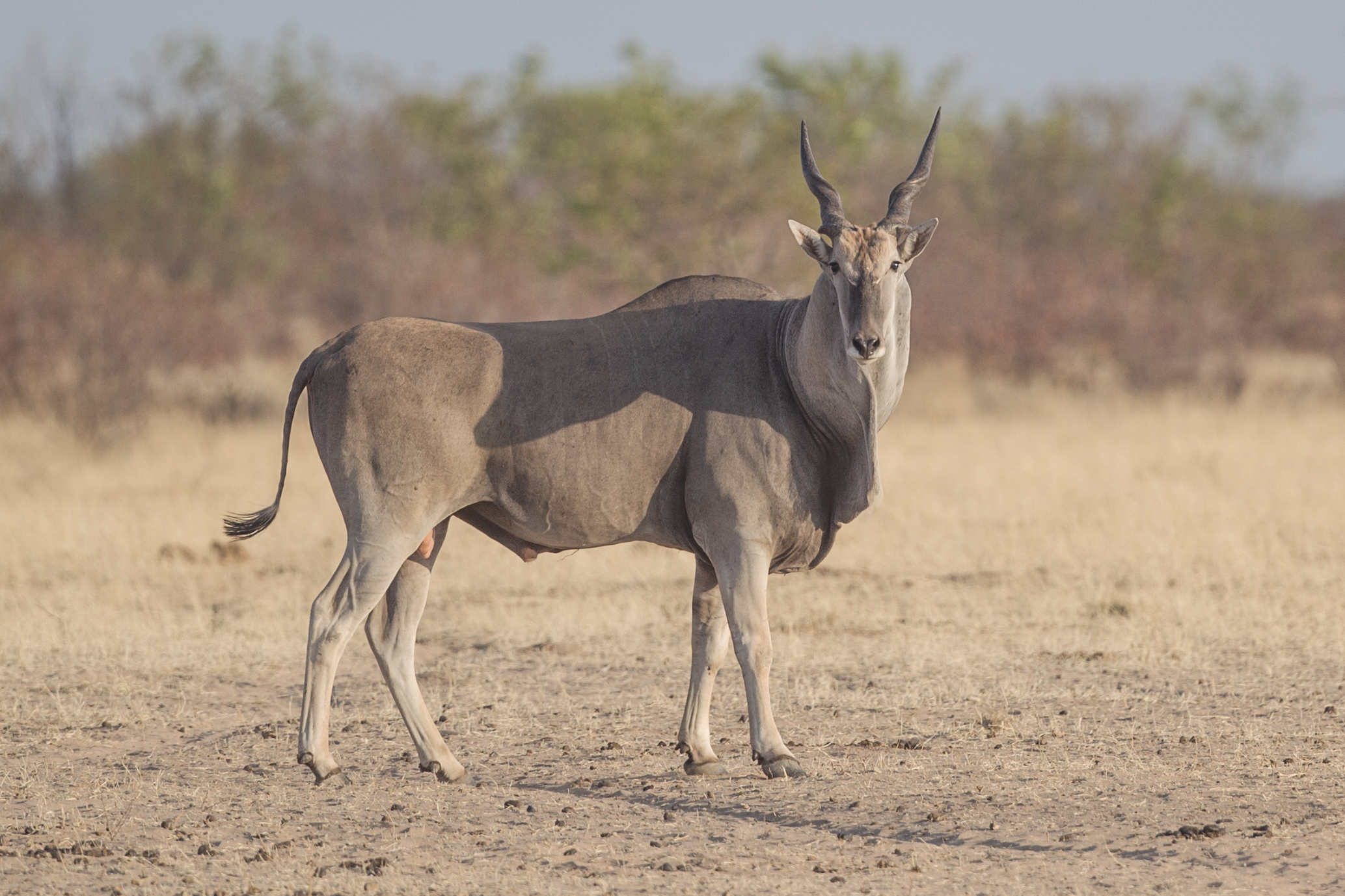 Common eland in Etosha National Park.